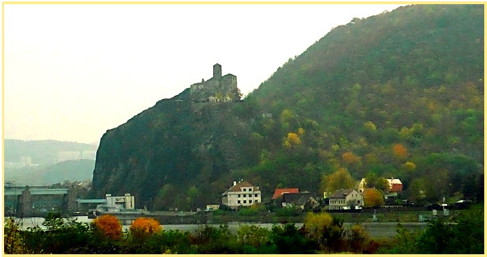 Photo from across the river, from southwest, of Strekov Castle in Czech Republic. Trees with autumn colors.